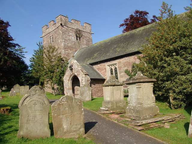 Church of England parish church of Saint Faith, Bacton